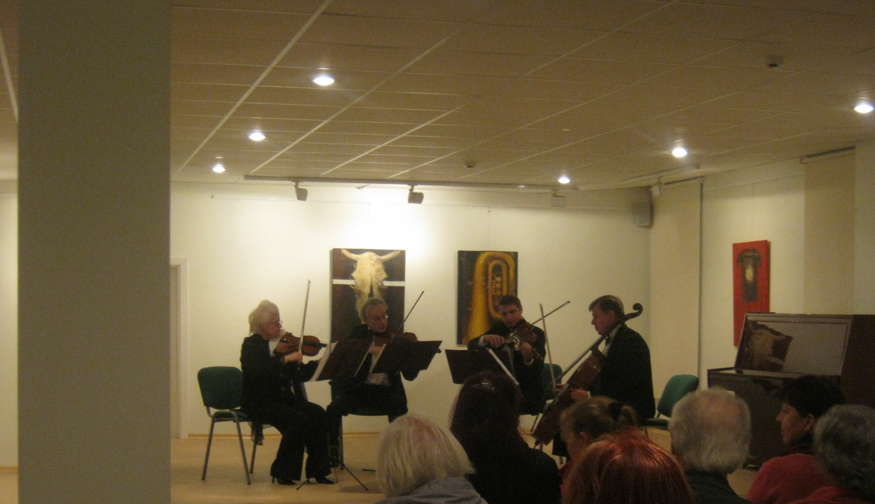 Lithuanian National quartet of Vilnius in Jonava, Lithuania.